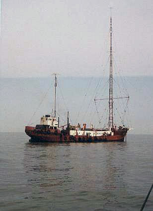 North Sea pirate station Mi Amigo during the 70s, photo taken during a visit to the ship by fans